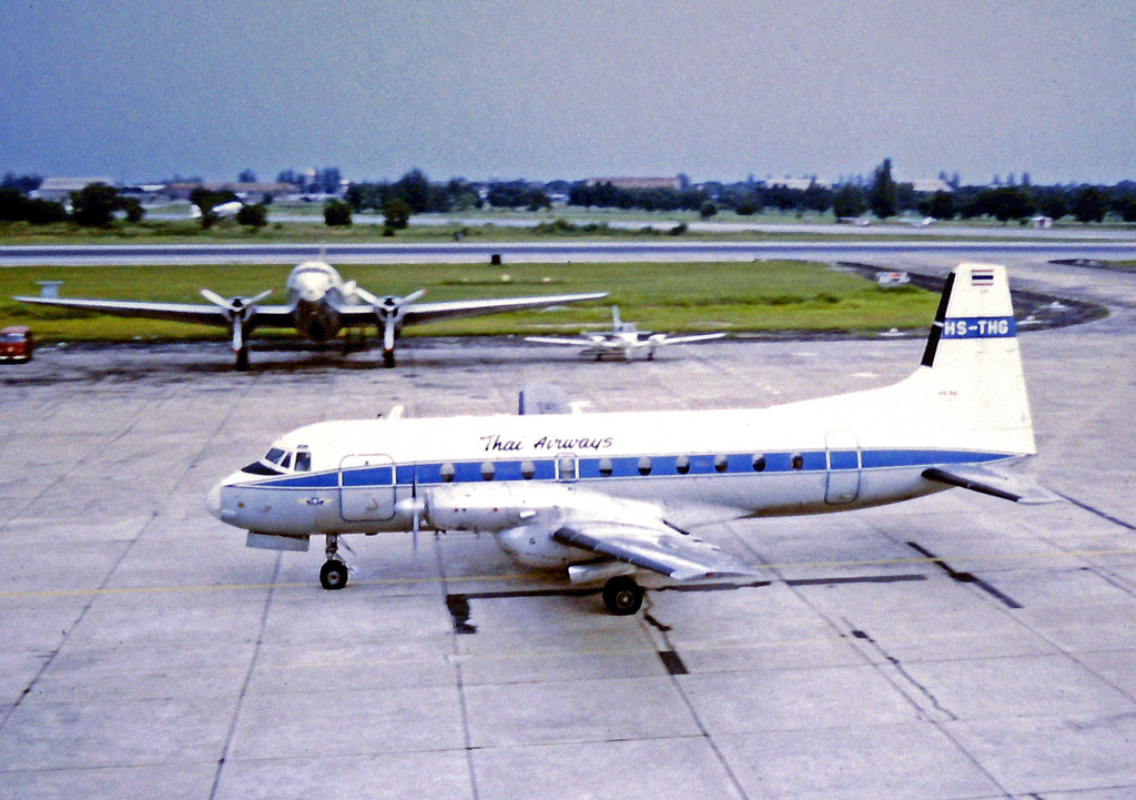 Hawker Siddeley 748 Series 2A HS-THG of Thai Arways at Bangkok in 1974